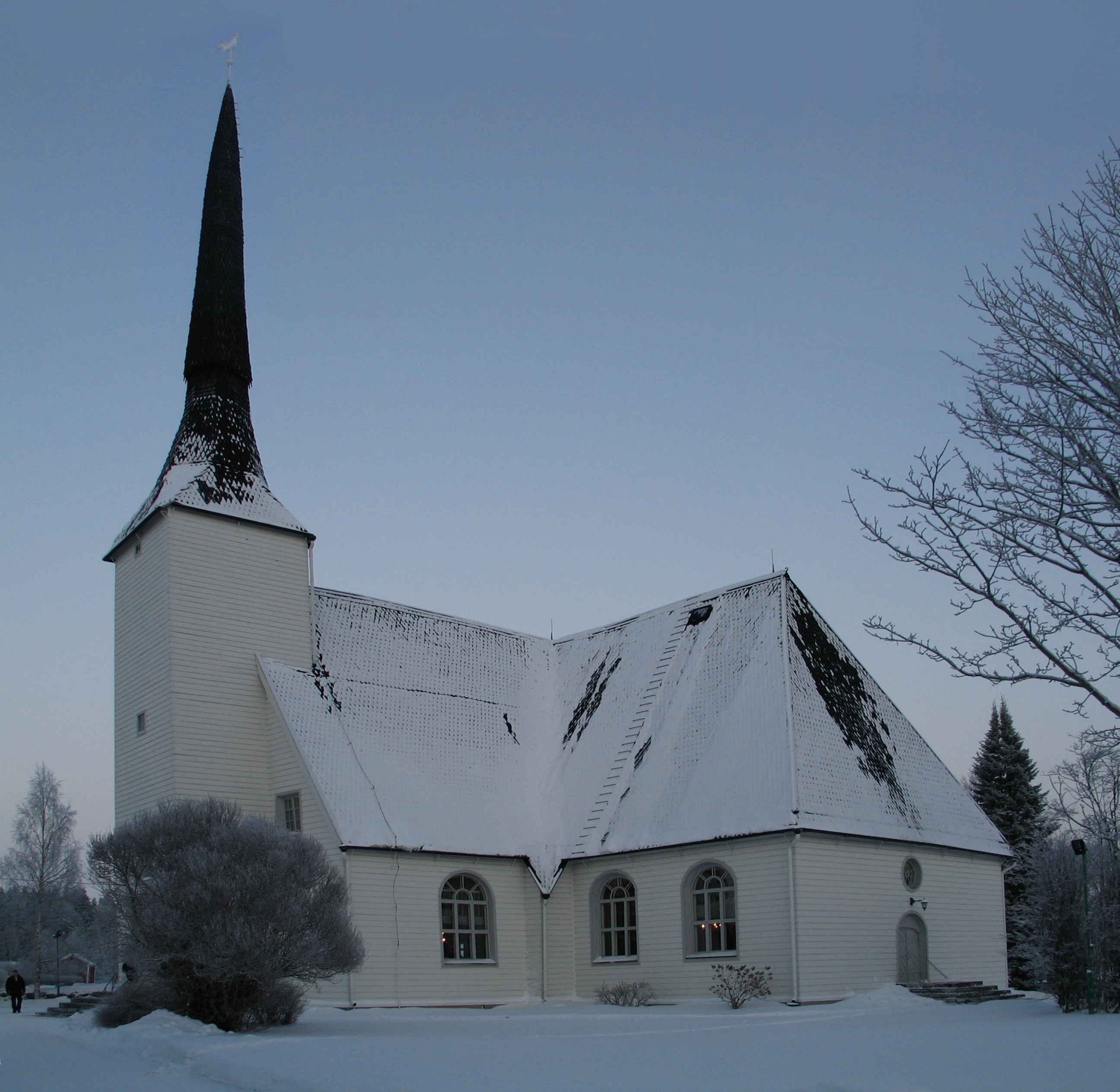 Church of Vörå in Ostrobothnia, Finland.